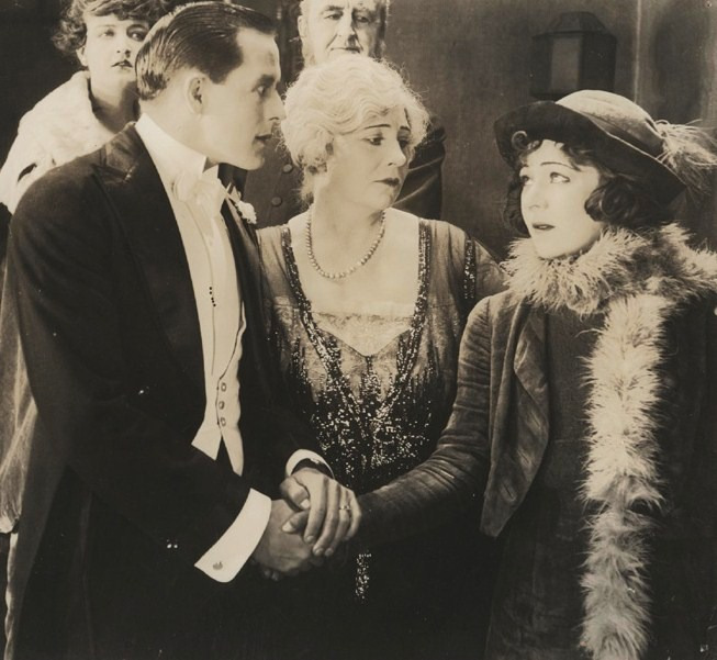 Left to right: Charles Bryant, Amy Veness, and Alla Nazimova in The Brat (1919) - original image cropped (see source)